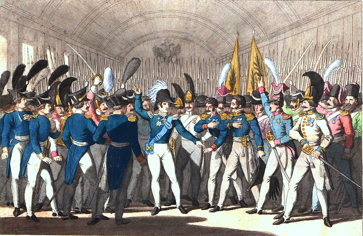 Emperor Nicholas I annouces to his guard outbreak of November Uprising in Poland